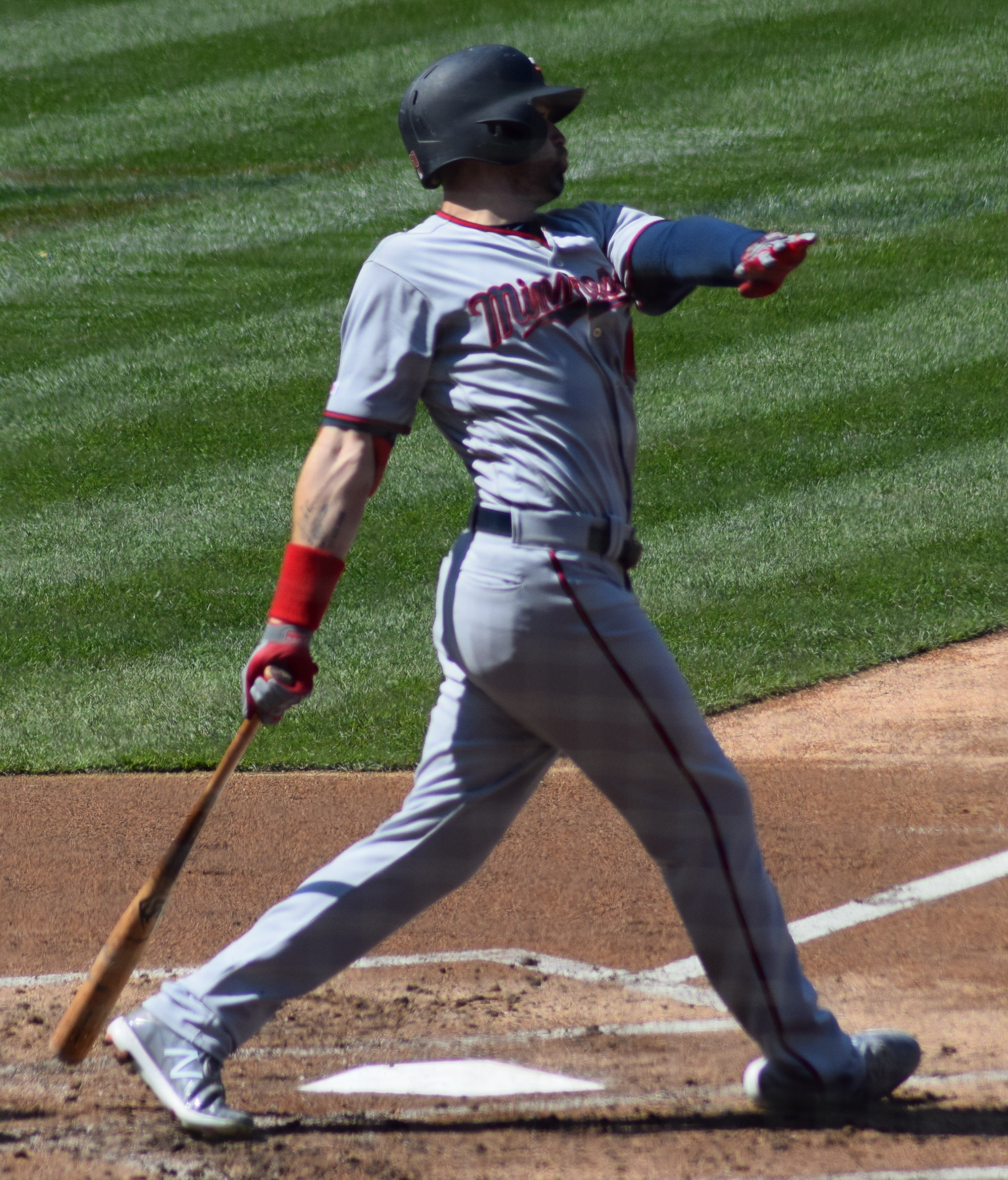 Jake Cave bats for the Minnesota Twins during a 2019 game at Citizens Bank Park in Philadelphia